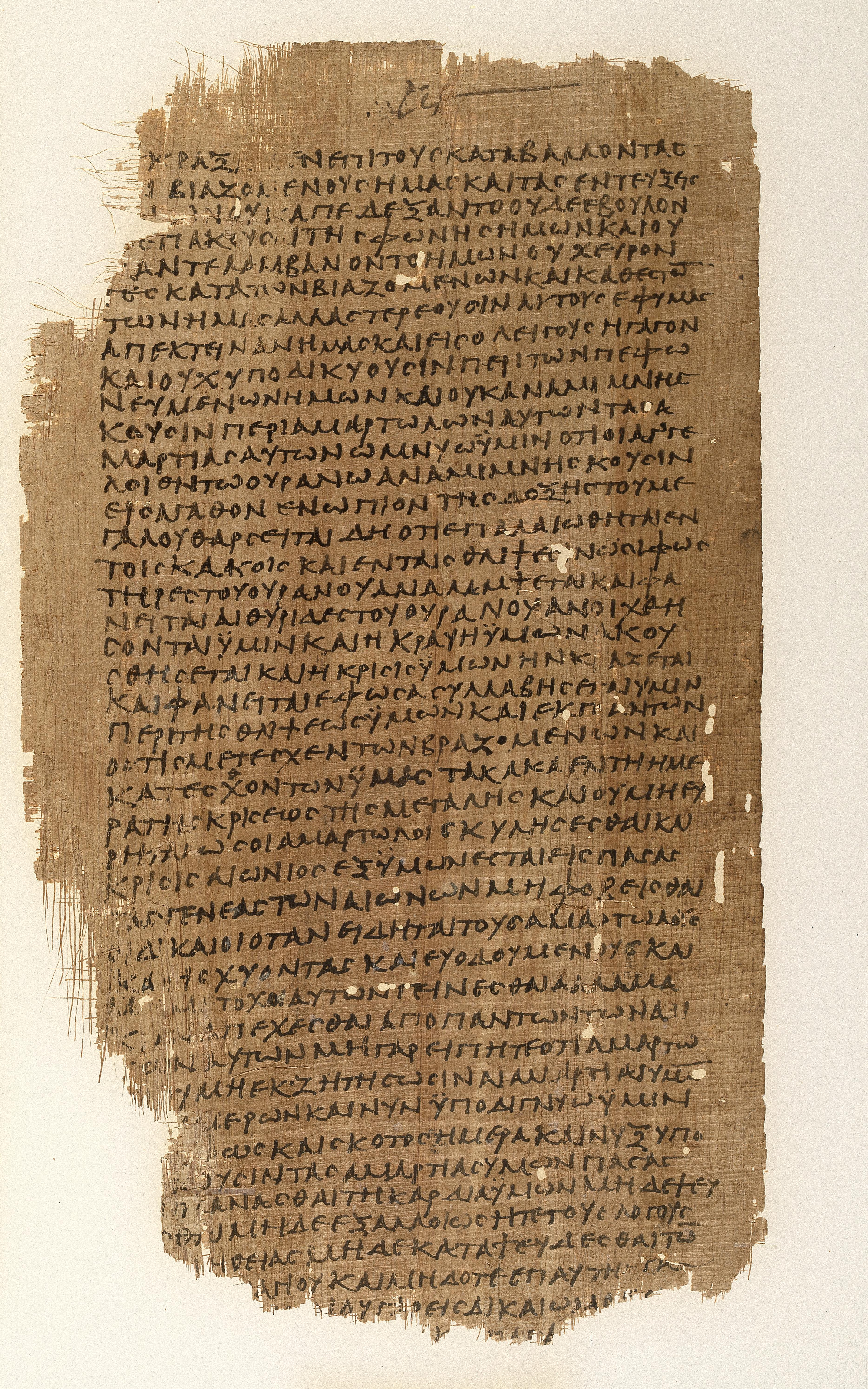 The back side of P.Mich.inv. 5552, showing portions of the Book of Enoch in Greek. This manuscript is part of the Chester Beatty Papyri, and is the 3rd leaf of the surviving manuscript, which also contained an unknown Christian homily attributed to Melito of Sardis. Most likely originated in Egypt. Currently housed in